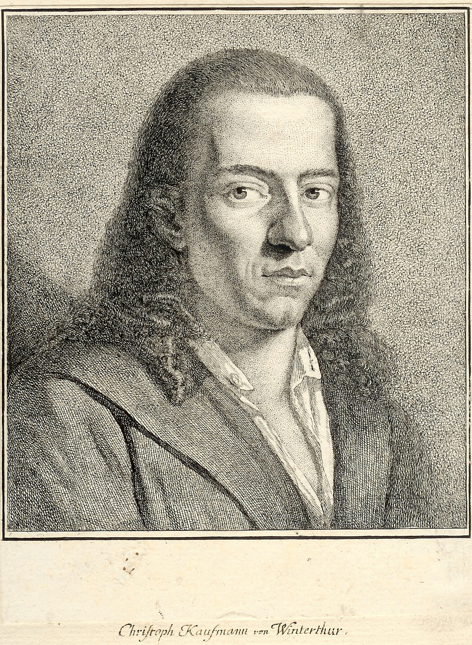 3/4 Portrait of Christoph Kaufmann with capture from Johann Kaspar Lavater